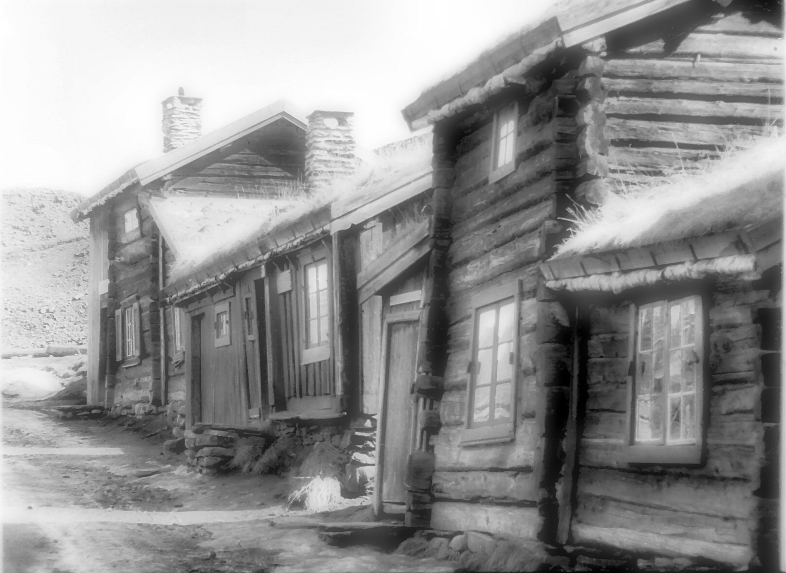 Sleggtveita, Røros, mining city, Sør-Trøndelag county, Norway. Example of turfed roofs in a city.